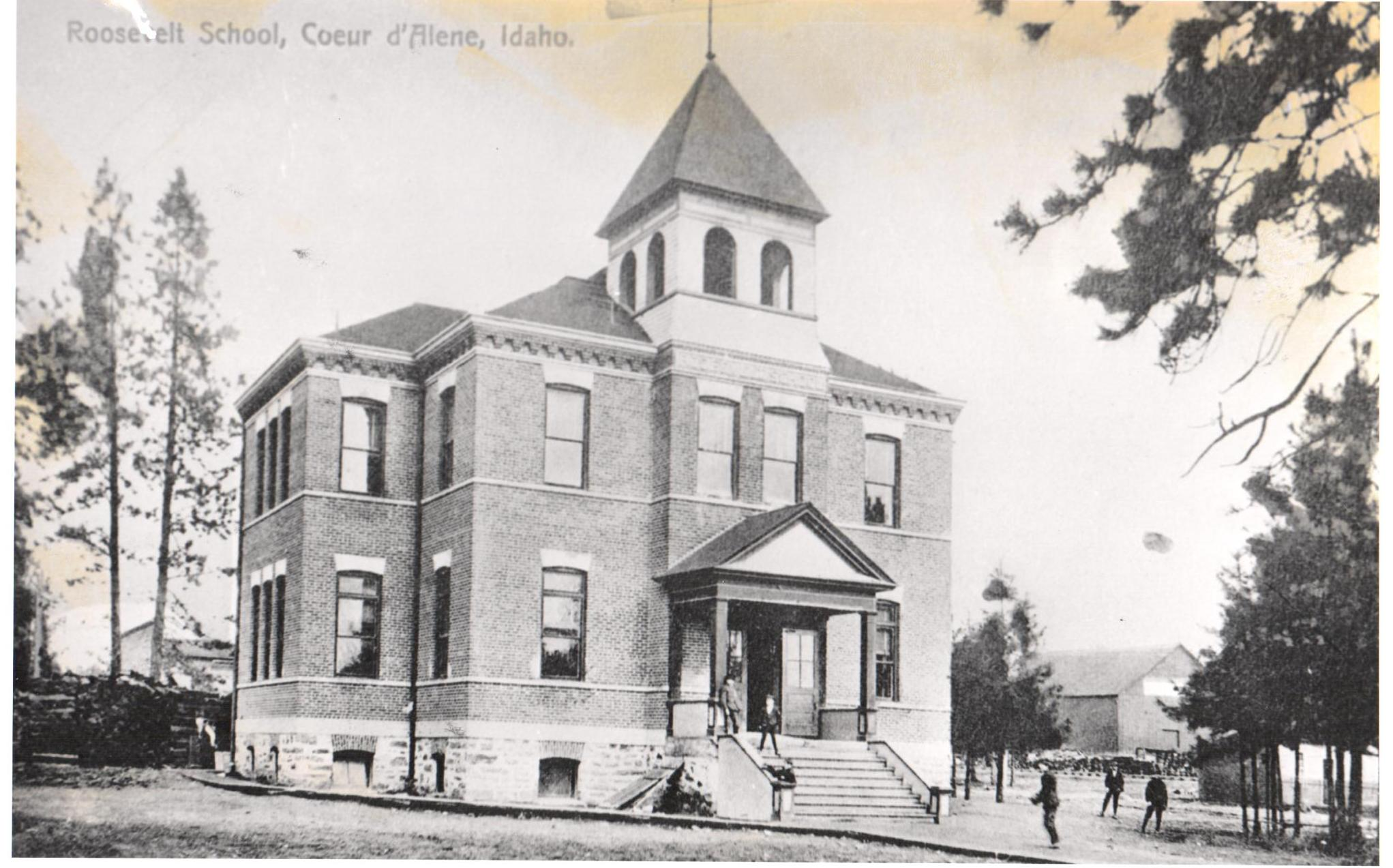 Roosevelt School House - Original